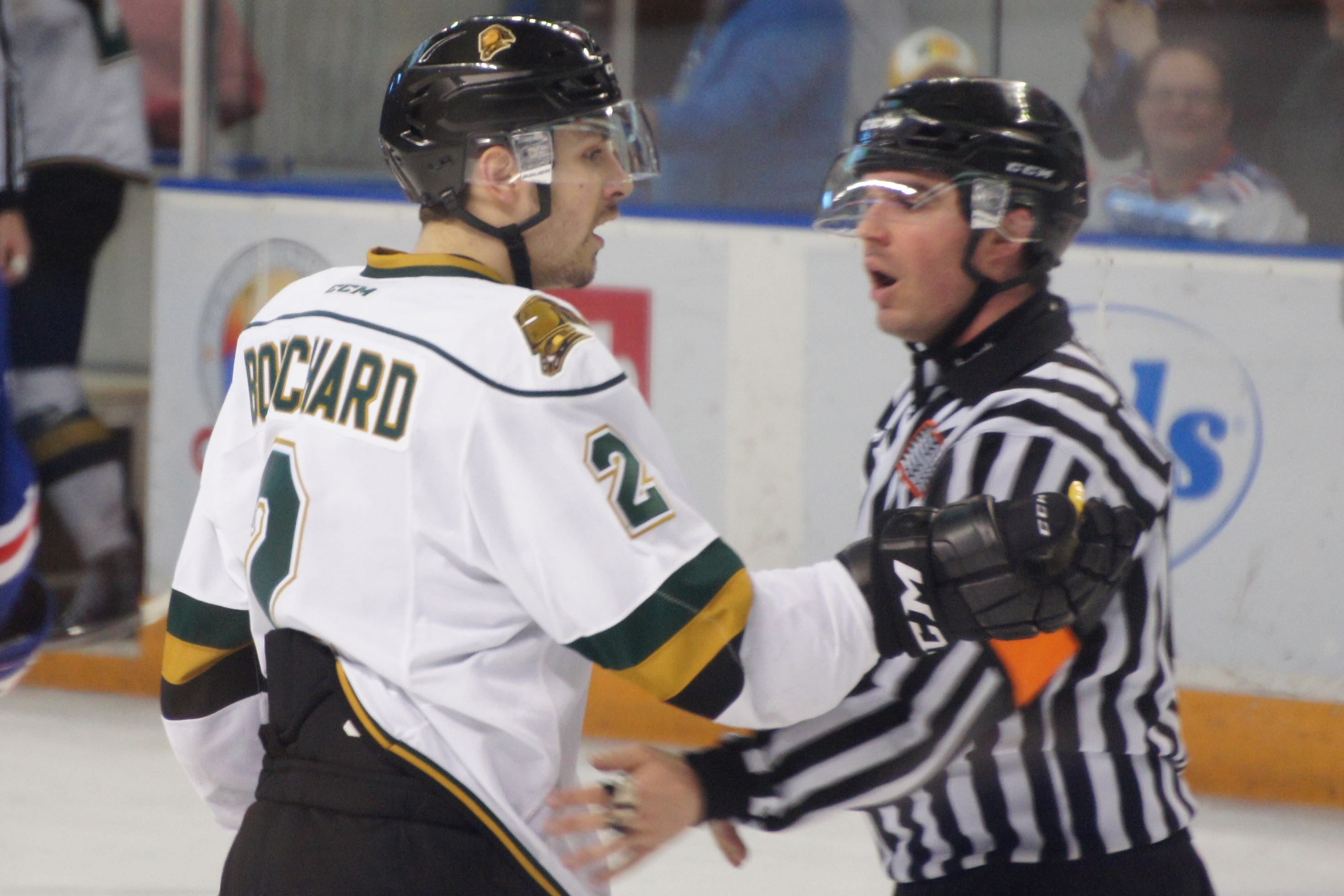 Evan Bouchard playing for the London Knights against the Kitchener Rangers in Kitchener on April 14, 2016.